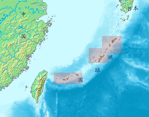 Location Ryukyu Islands.